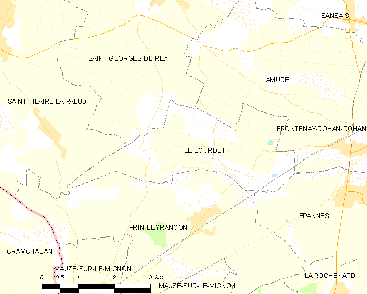 Map of French municipality Le Bourdet